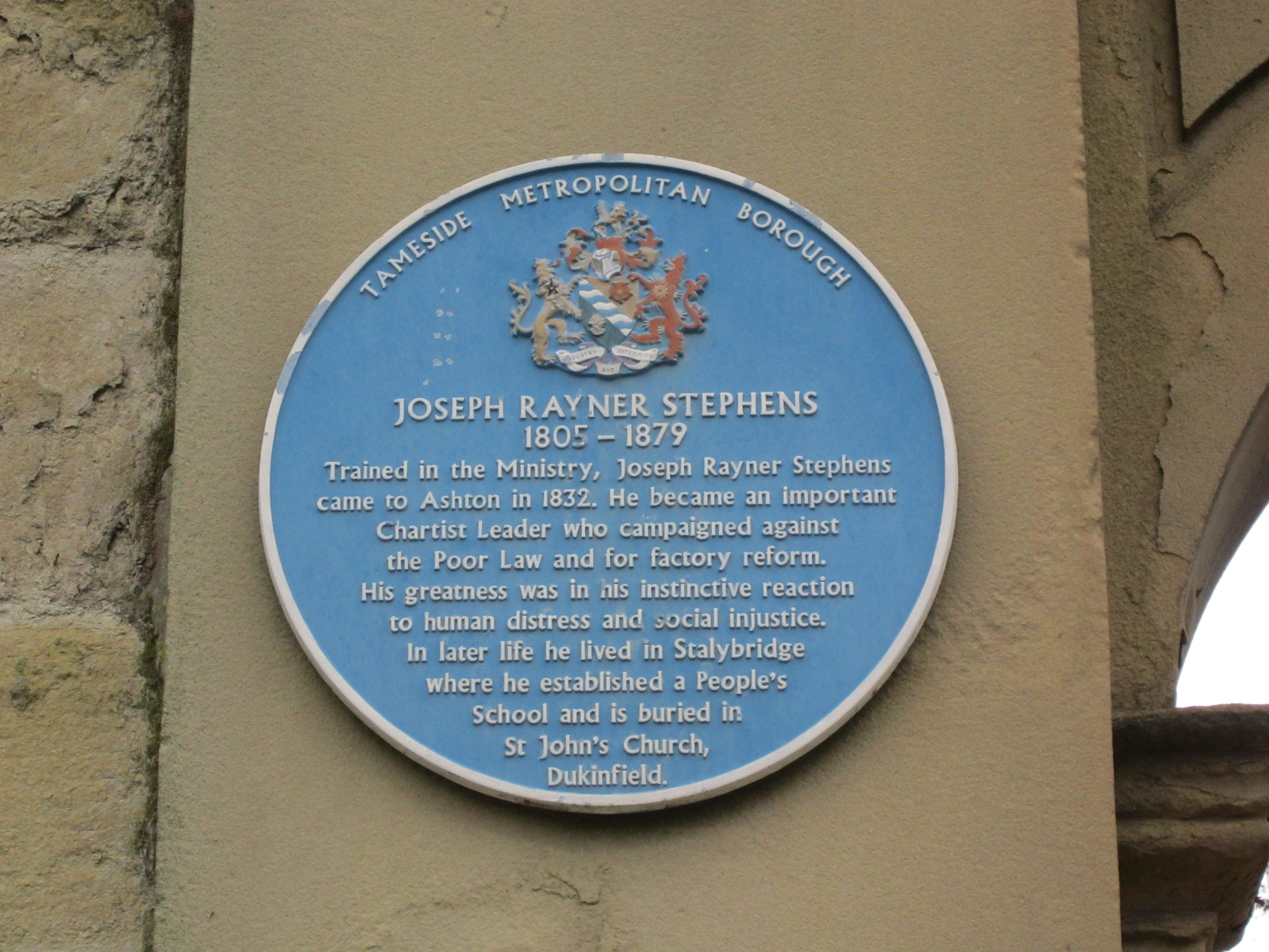 Photo taken at the site of the former Stalybridge Town Hall, Greater Manchester, England.